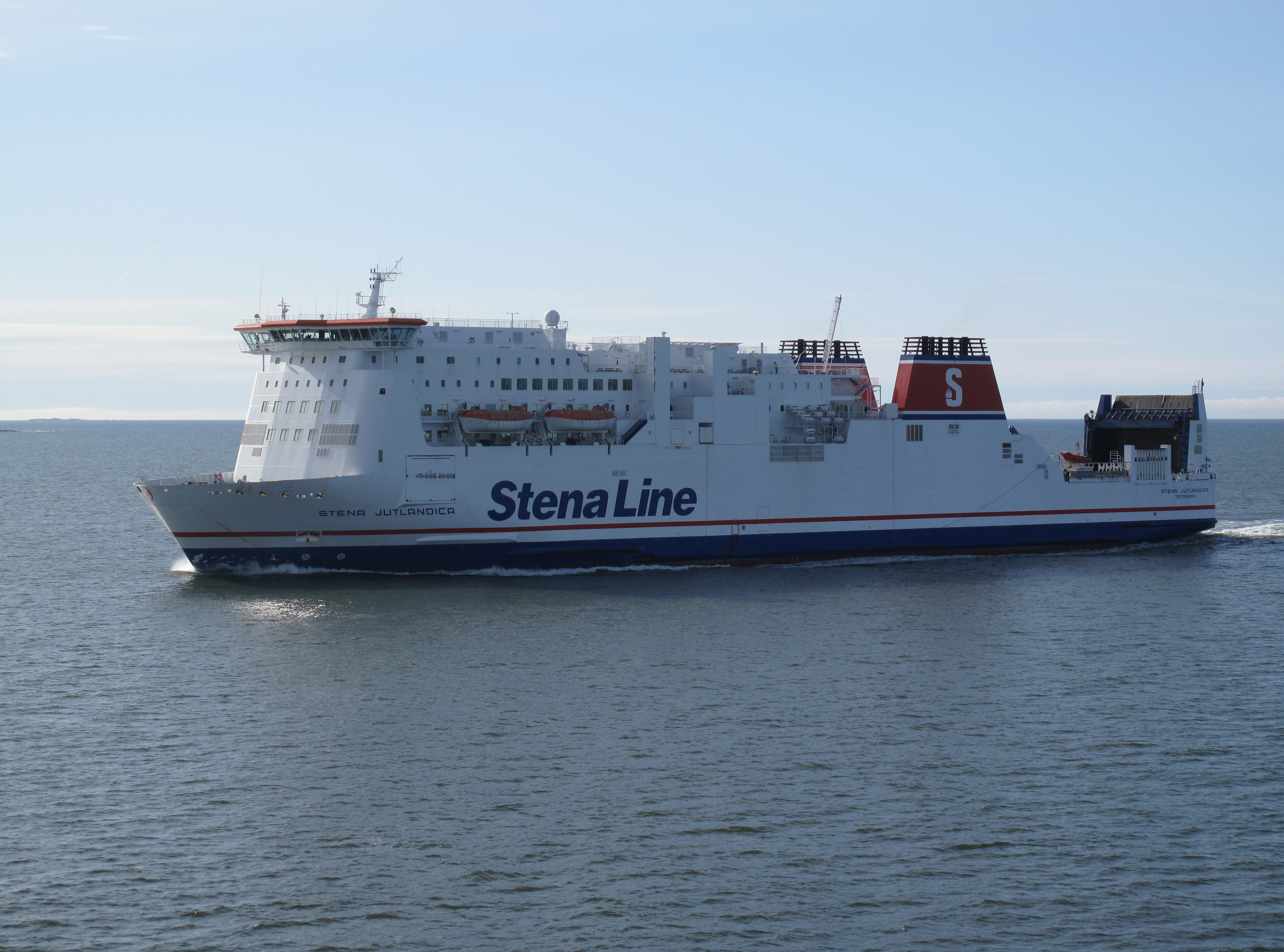 M/S Stena Jutalndica, built in 1996.